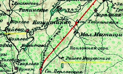 Village Rayevo and manor Rayevo (Rayevo Mesherskogo) on a topographic map, Moscow province.